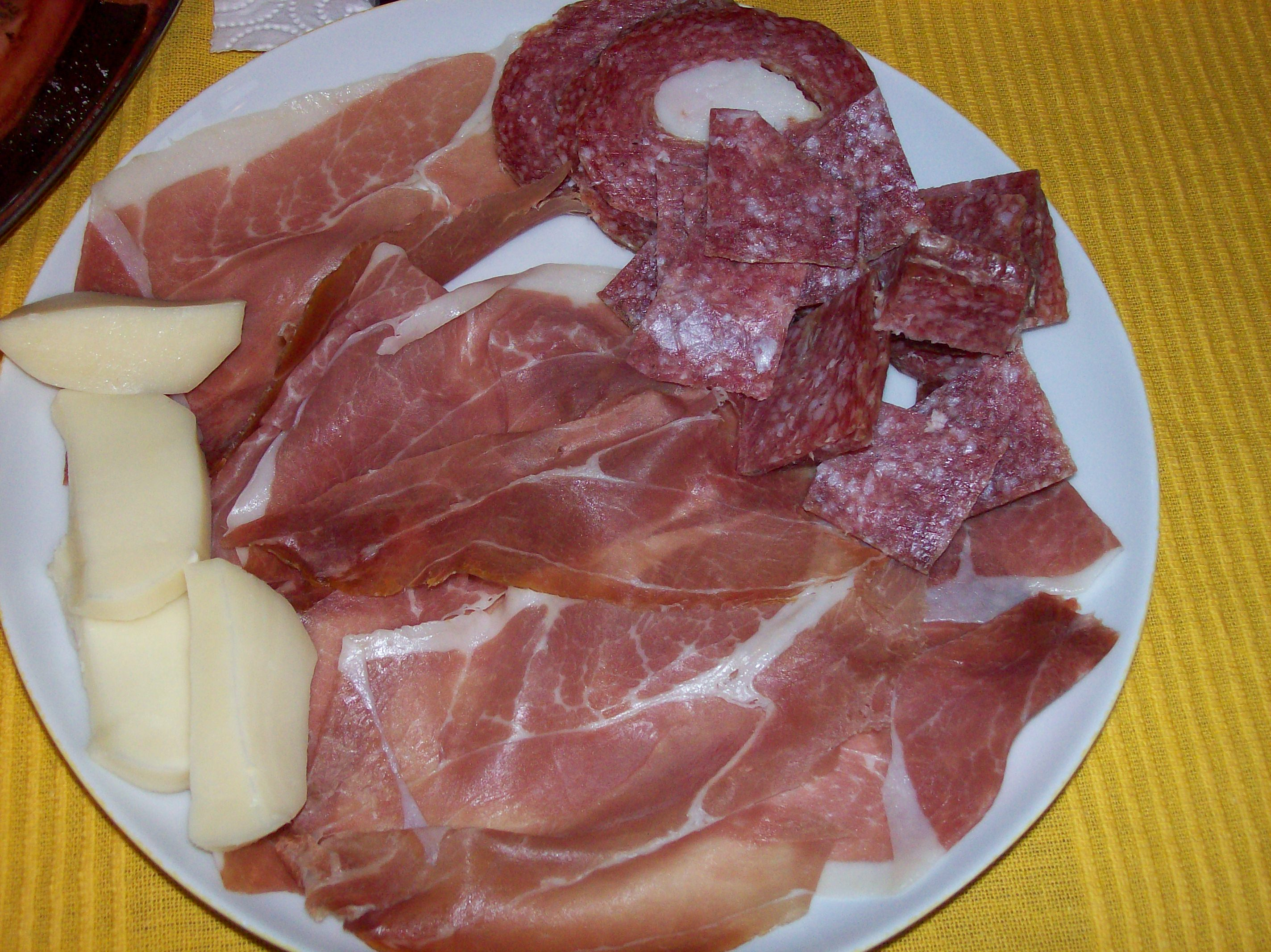 Salt meat cut into thine stripes.